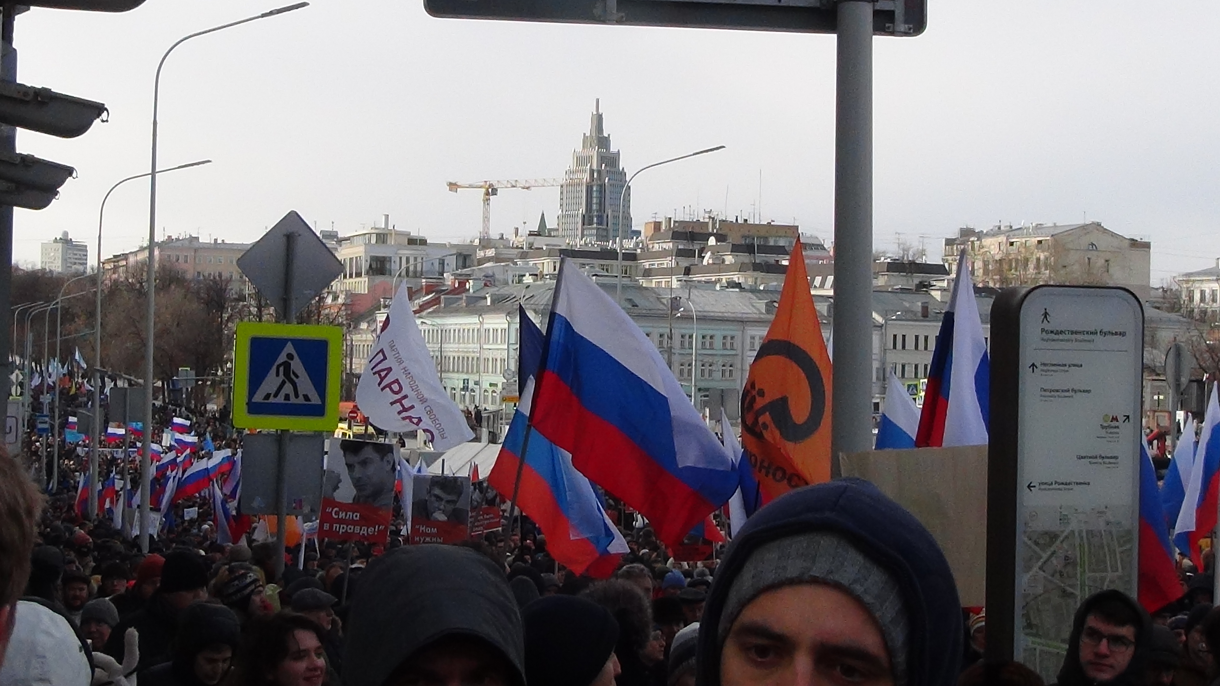 March in memory of Boris Nemtsov in Moscow (2017-02-26).